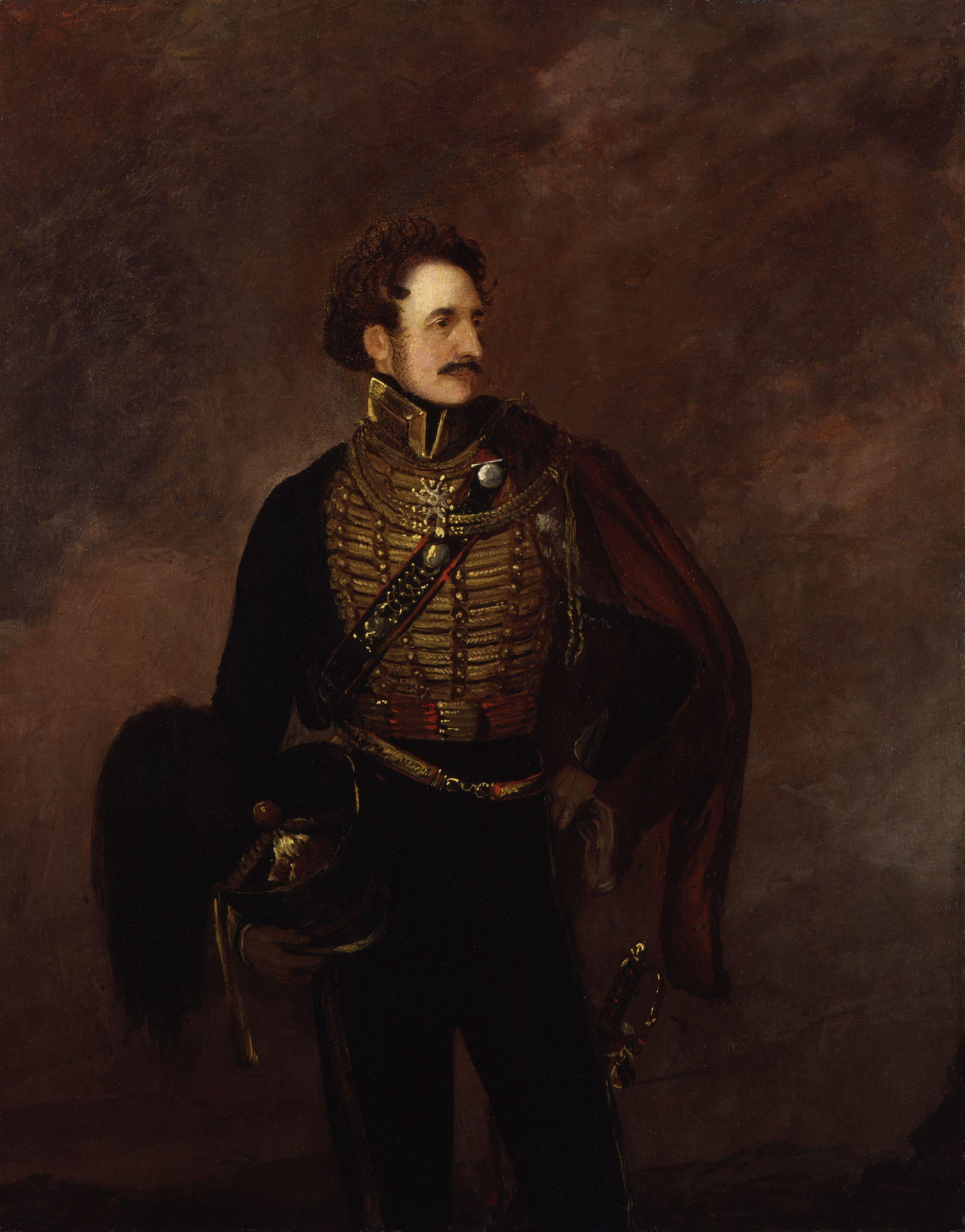 Thomas William Taylor, by William Salter (died 1875). All images in this batch have been confirmed as author died before 1939 according to the official death date listed by the NPG.